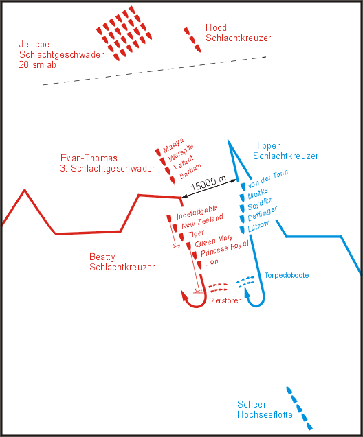 Battle of Jutland Battlecruiser action 31 May 1916.